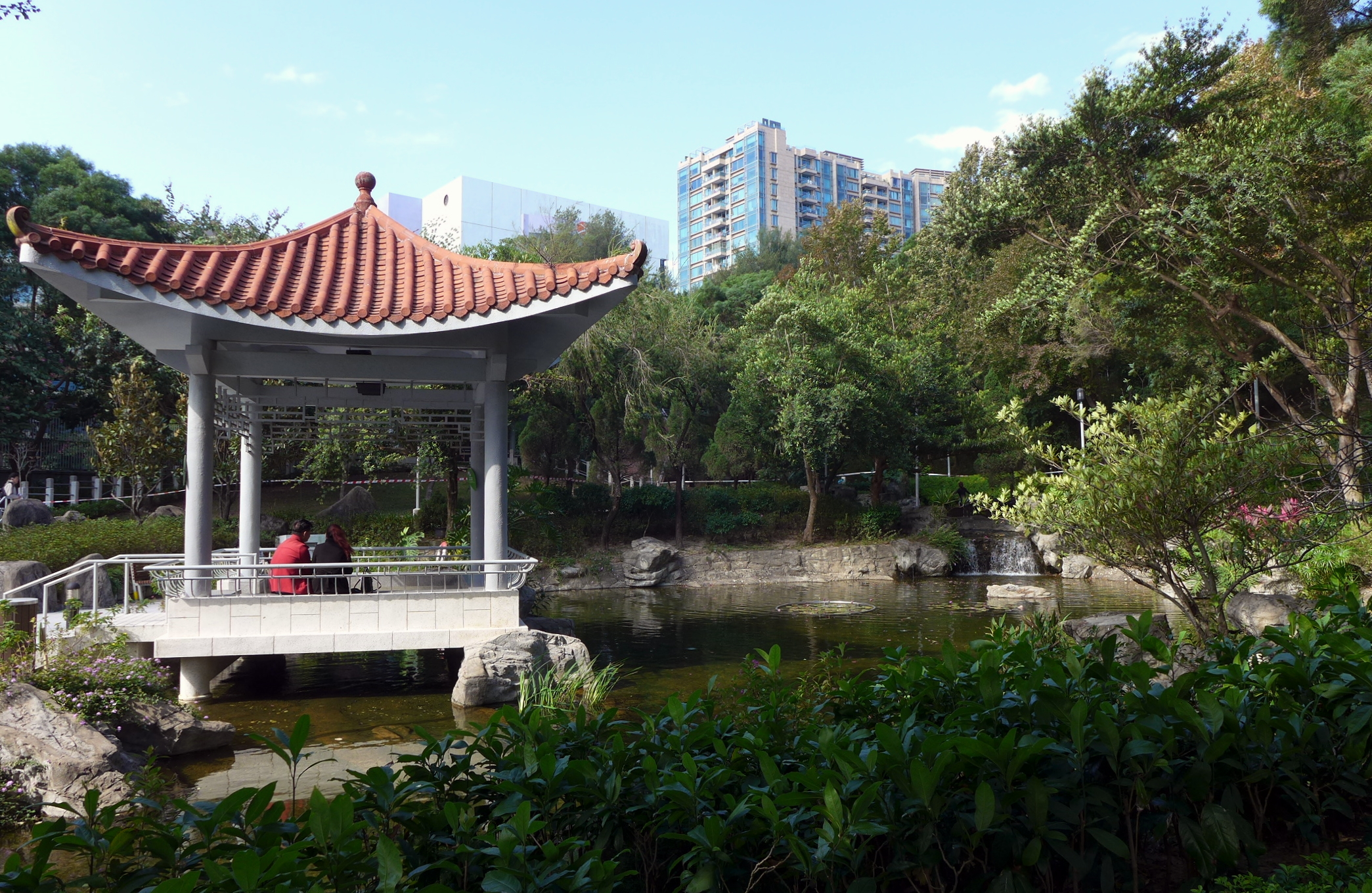 Cornwall Street Park Pond